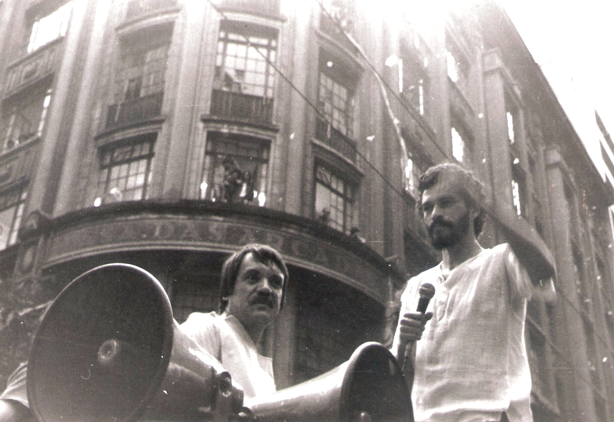 Brazilian soccer player Mr. Socrates participating in the political movement for democracy in Brazil - 1984